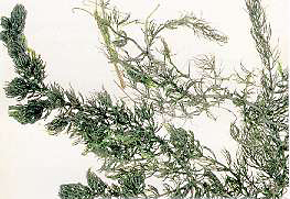 Common Hornwort (Ceratophyllum demersum)